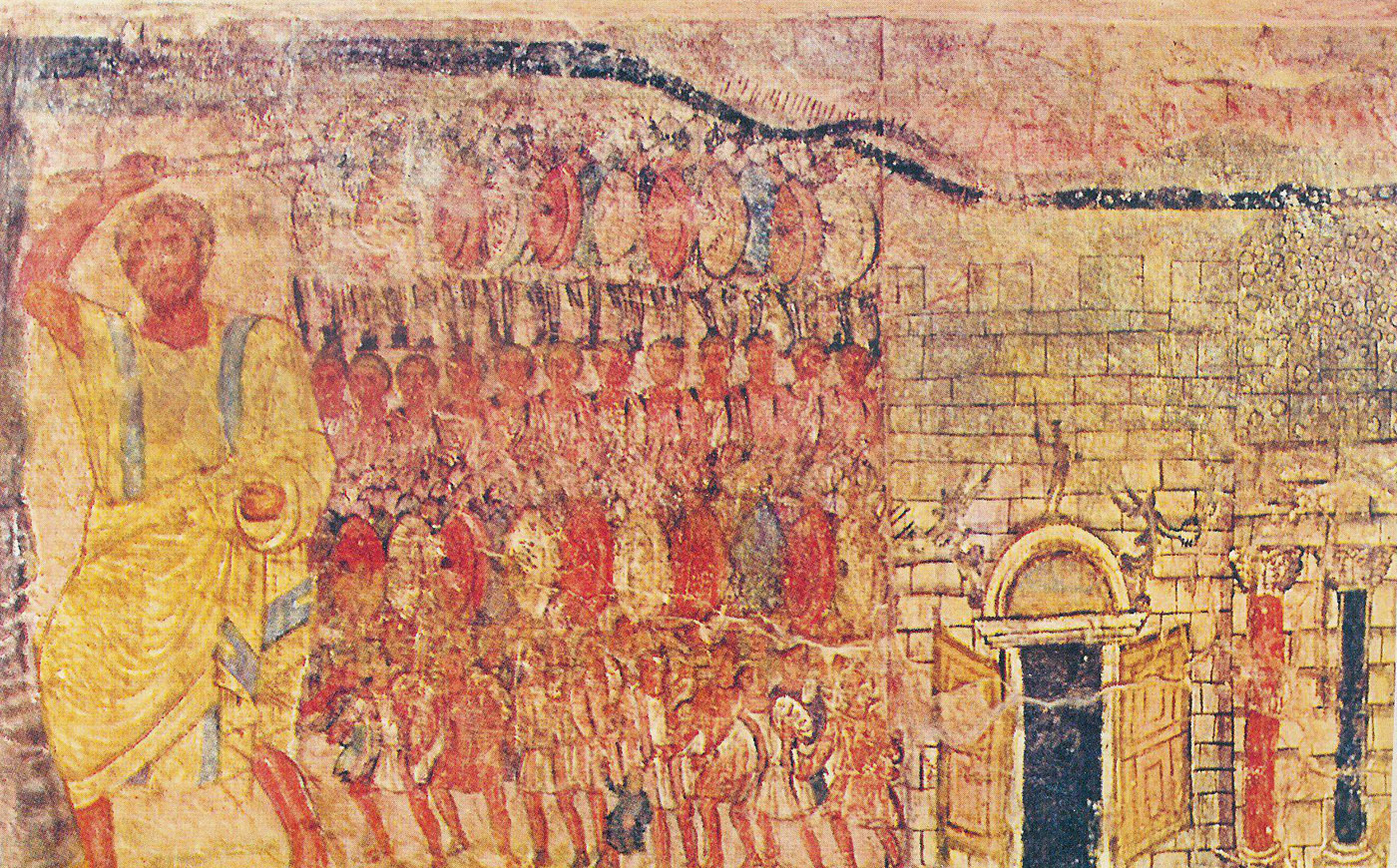 Dura Europos synagogue wall painting showing the Hebrew leaving Egypt : west wall, register A